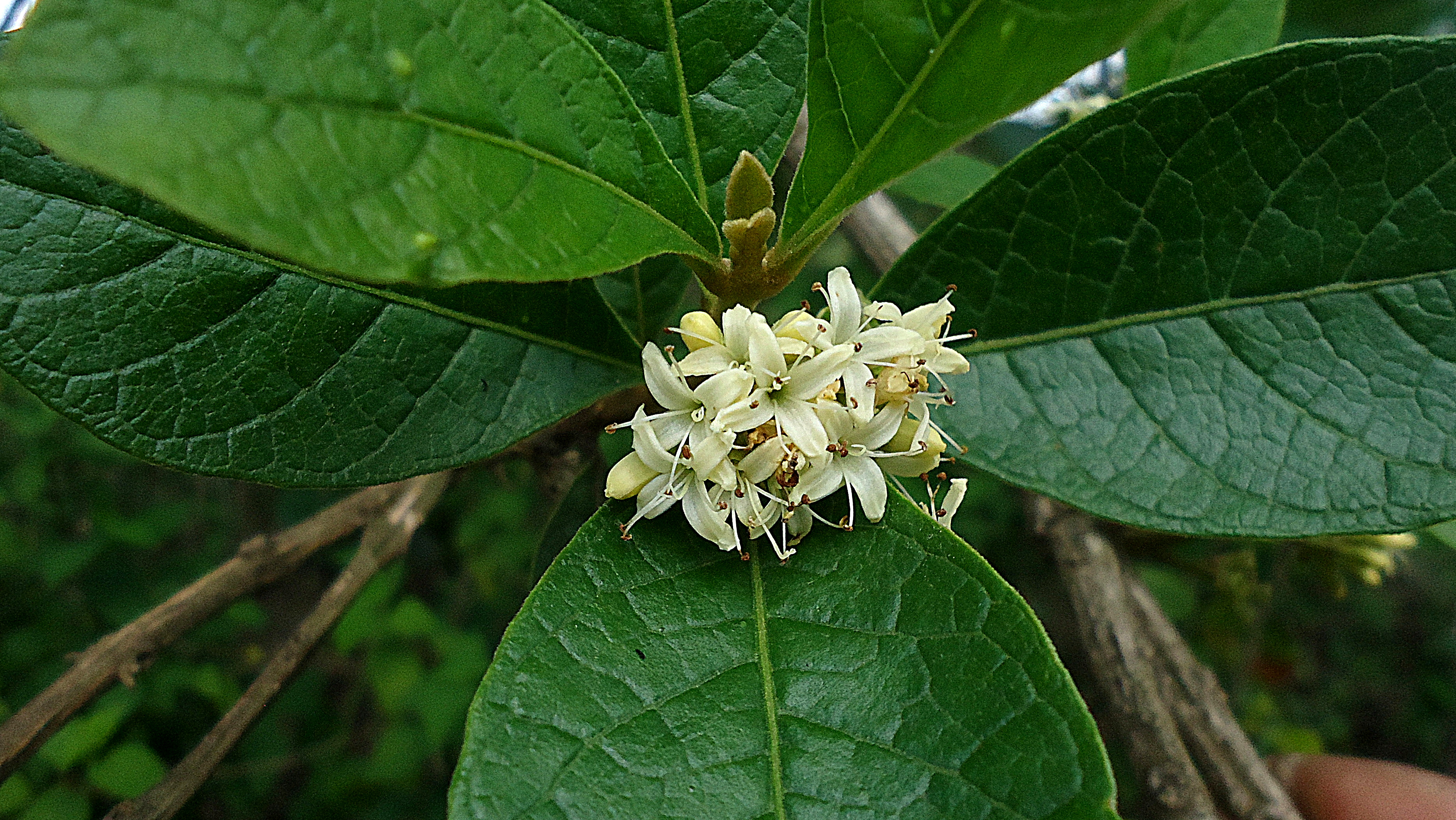 Aegiphila macrantha, Entre Rios, Bahia Brazil